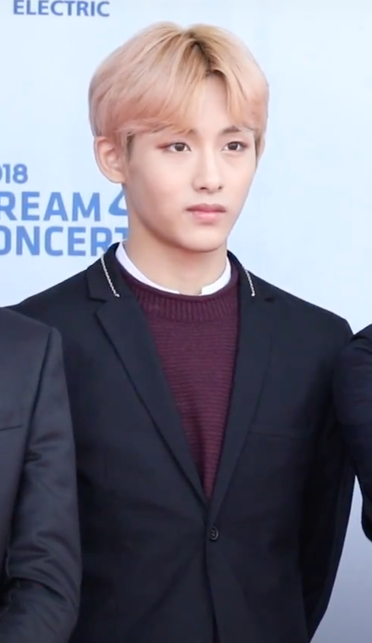 Winwin 2018 DREAM CONCERT